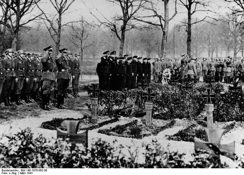 (rough partial translation of French original): Day of memory for the german dead. Occasioned by the day of memory for fallen germans, a commemorative ceremony took place this morning, at Ivry cemetery, in the presence of General Schaumburg, commandant of Greater Paris and from S.E.M. ambassador Otto Abetz.